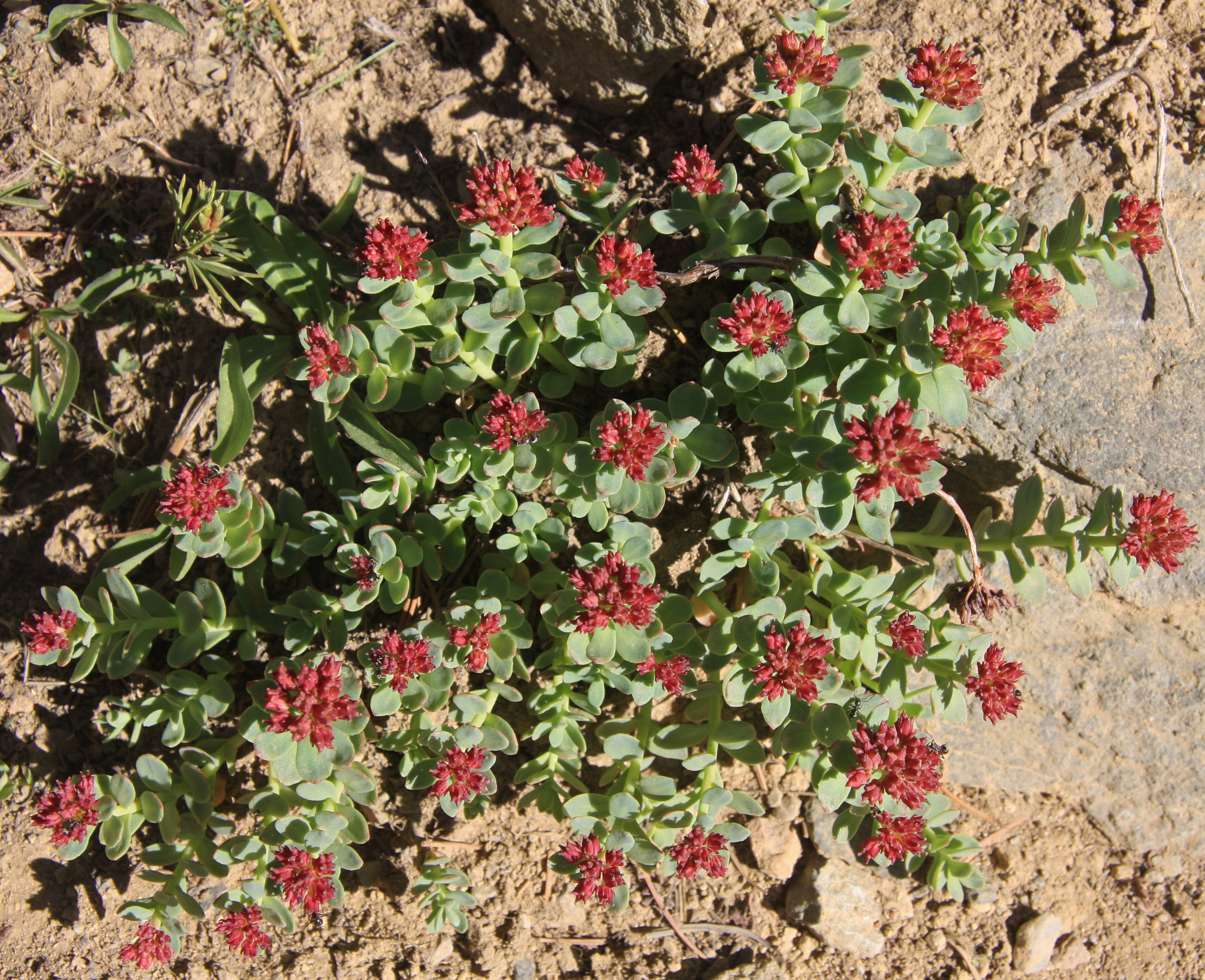 Rosy sedum (Sedum rosea) clump of plants. At 10,400 ft (3,200 m) near Frog Lakes on the trail up from Virginia Lakes, Hoover Wilderness, Sierra Nevada USA.